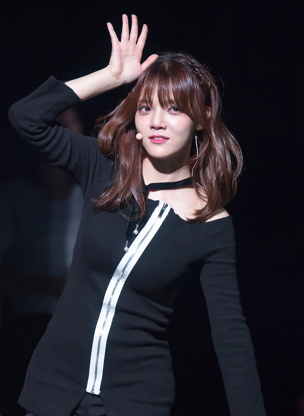 [16.06.11] AOA Mini Live Good Luck to ELVIS